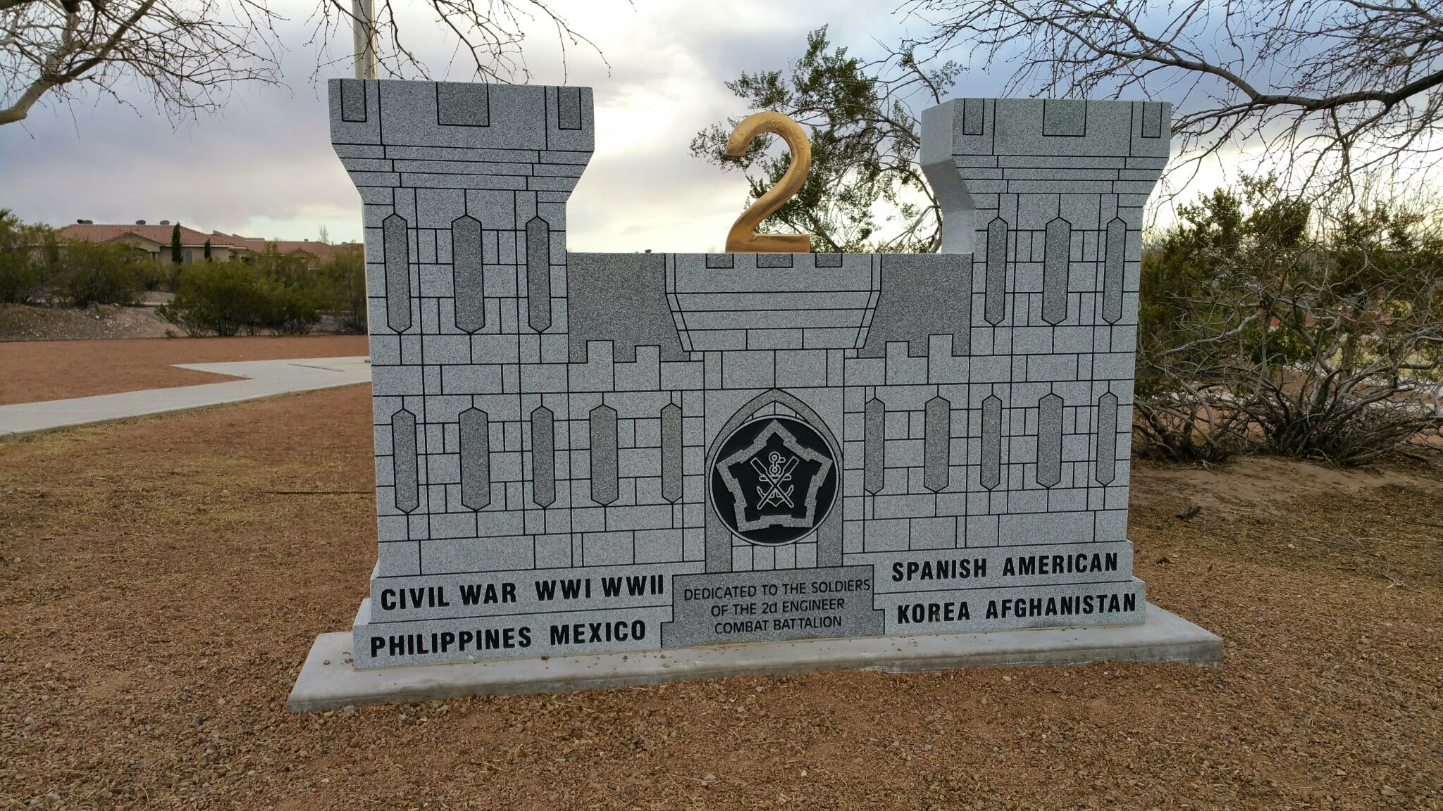 A concrete memorial in the shape of the US Army Corps of Engineers Castle, the large metal 2 representing this is for the 2nd Engineer Battalion